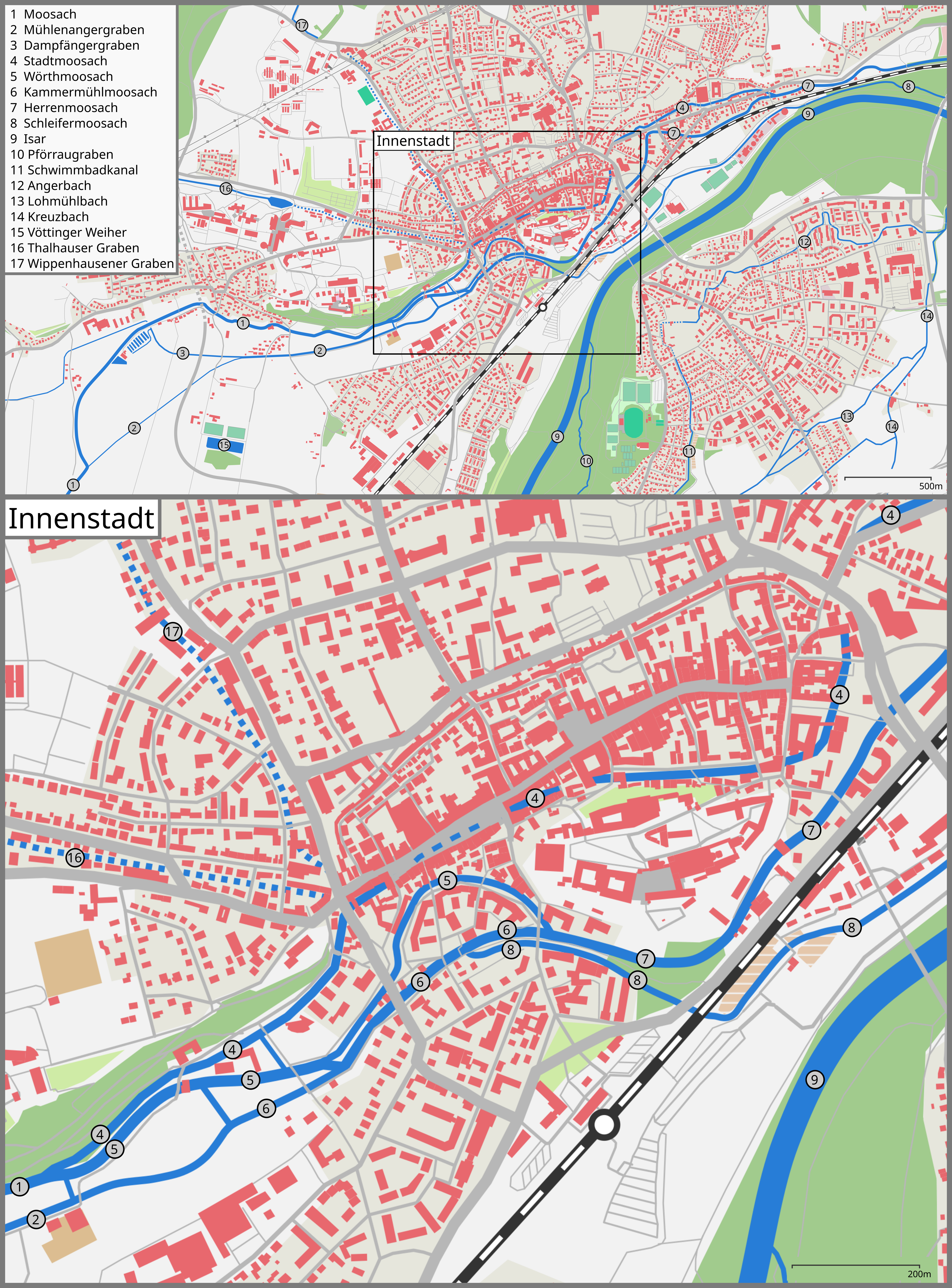 This map of waterbodies in Freising was created from OpenStreetMap project data, collected by the community.This map may be incomplete, and may contain errors. Don't rely solely on it for navigation.